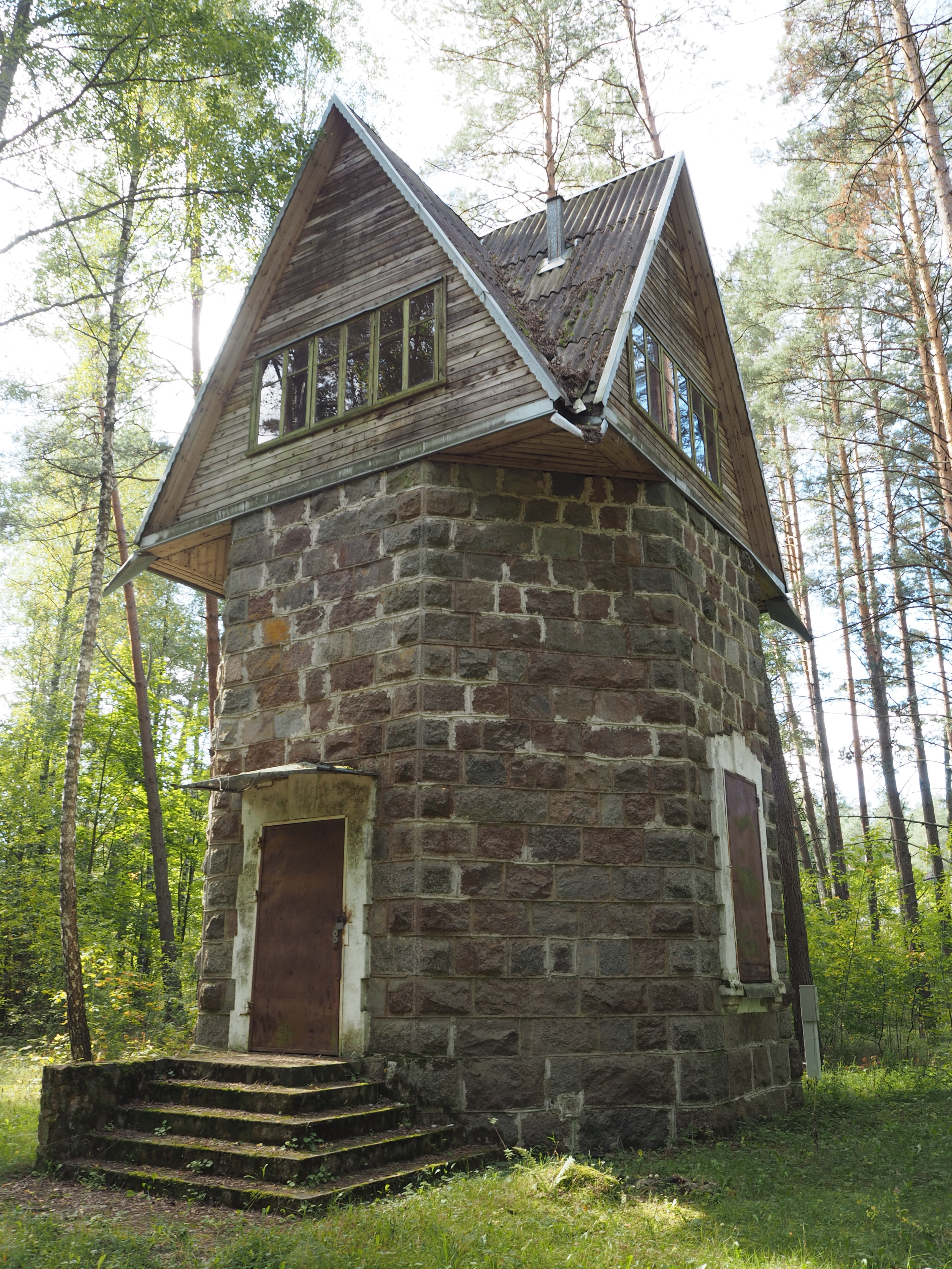 Defunct water tower of Glūkas train station